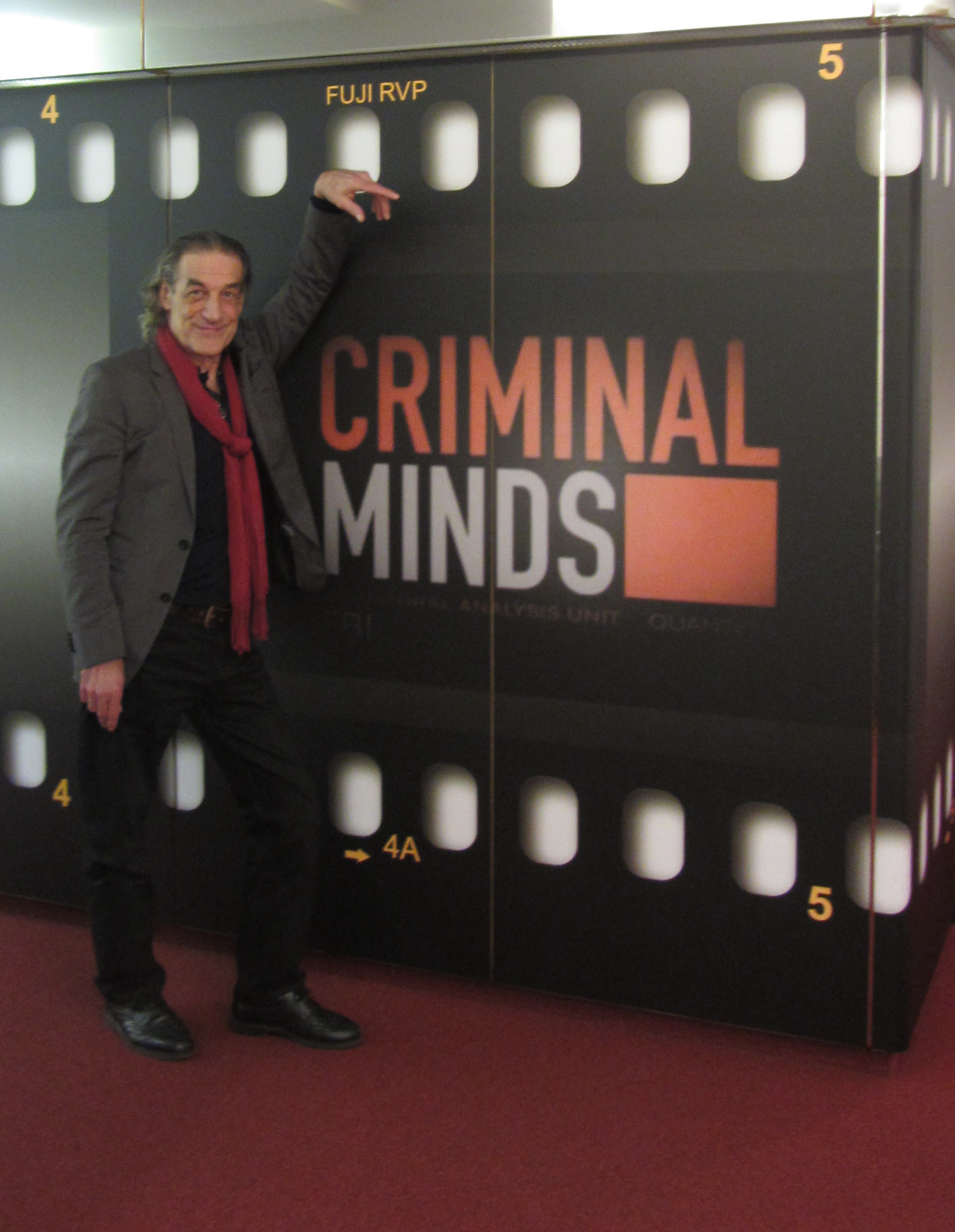 Raimund Krone at his work as dubbing actor for the German version of Criminal Minds at the ateliers of "Euro Synch" in Berlin (15 April 2015).